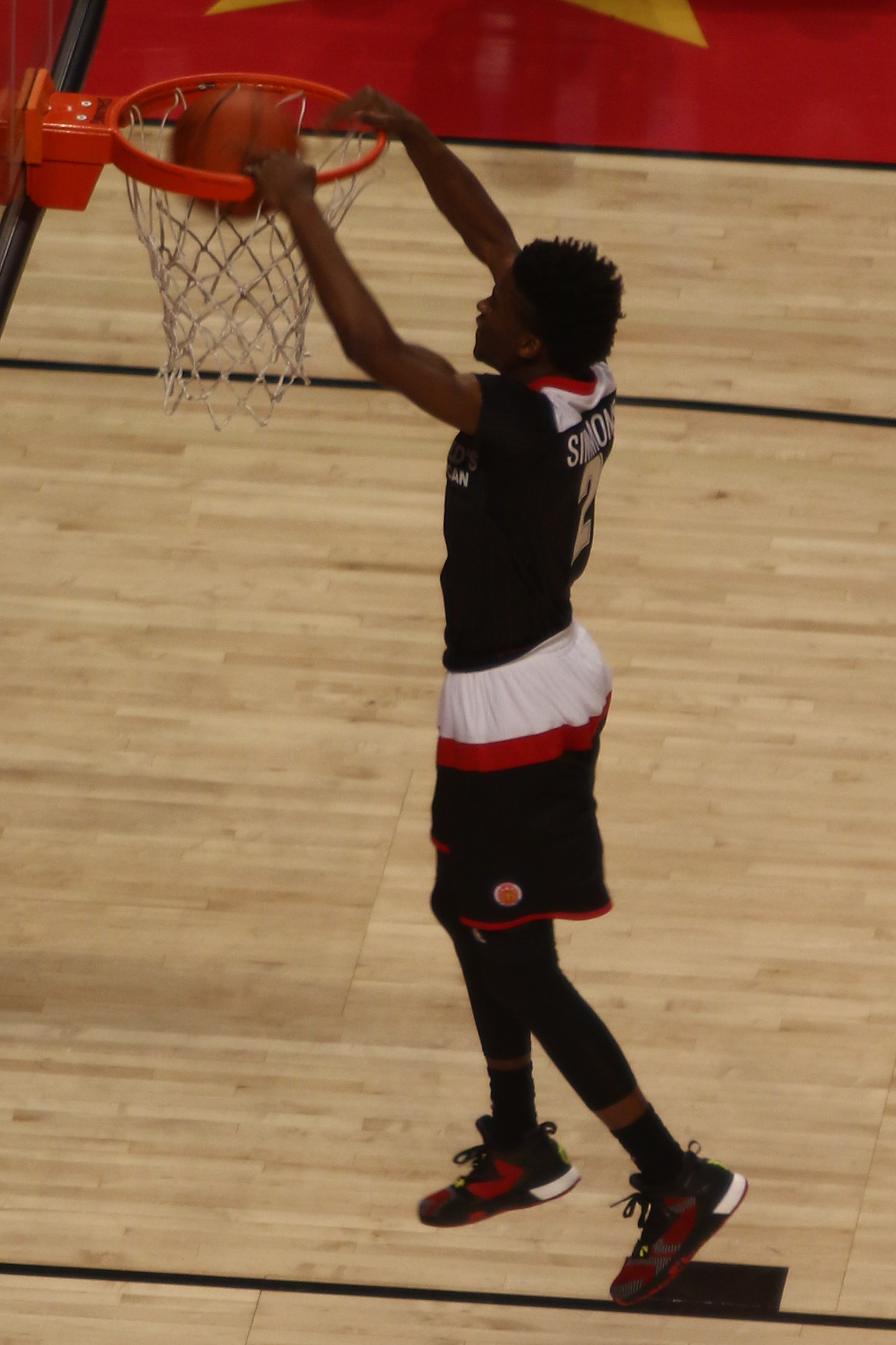 Kobi Simmons at the w:2016 McDonald's All-American Boys Game